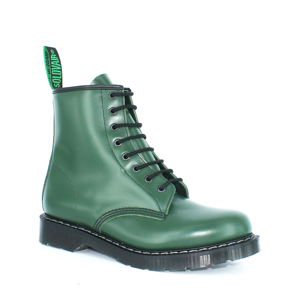 This is the current 2018 Solovair Derby boot